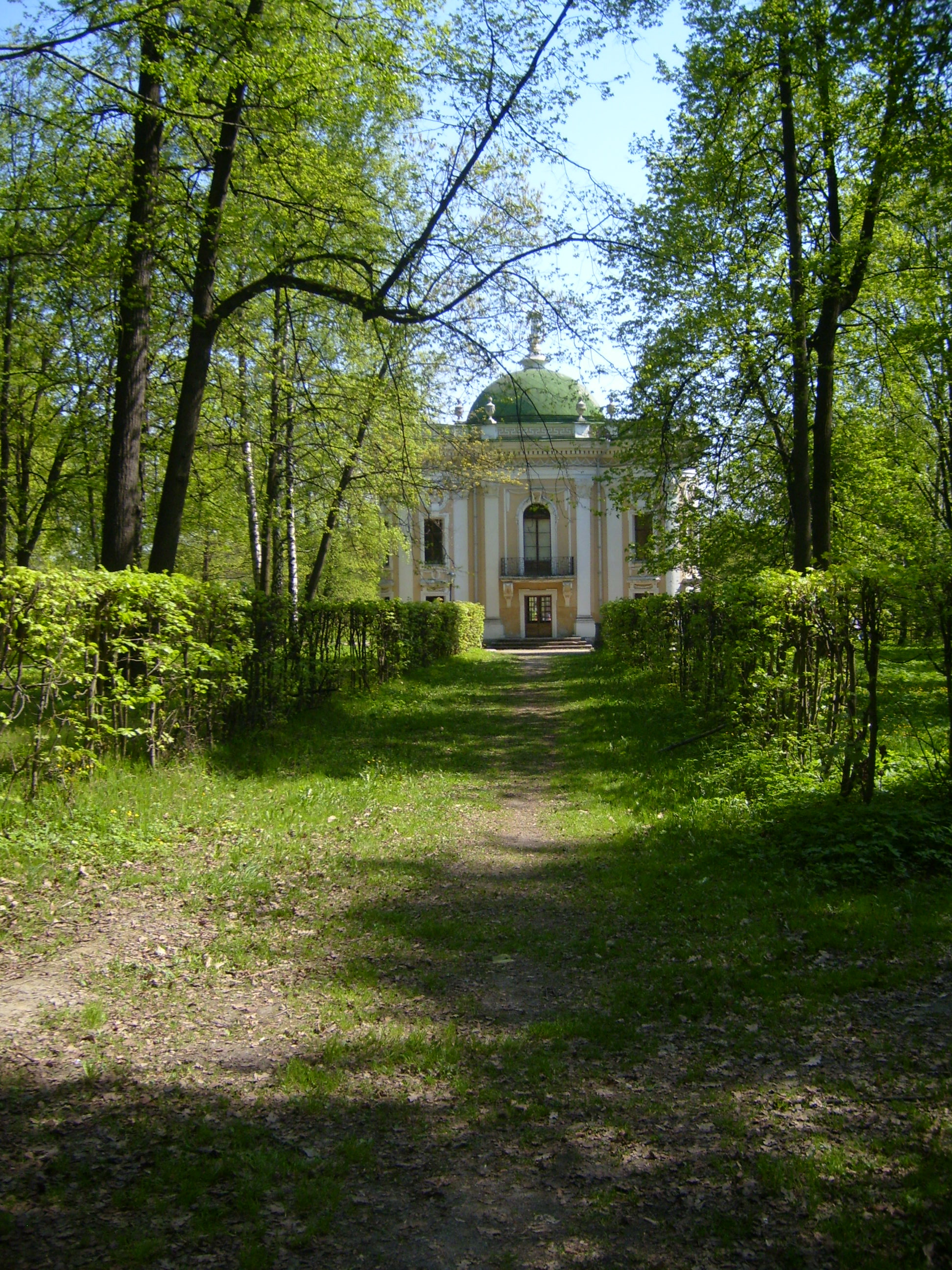 Hermitage in Garden of Kuskovo Estate, Moscow